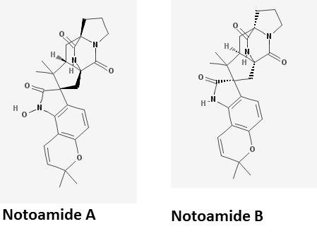 Notoamide A&B